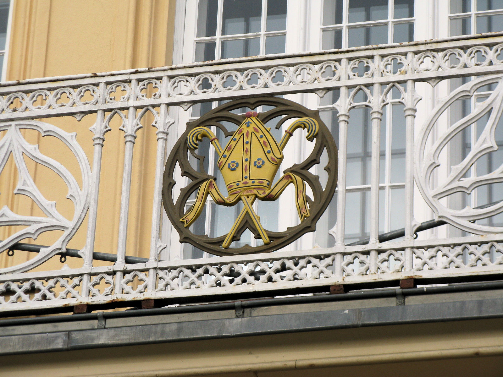 Detail at entry of town hall in Bützow, district Güstrow, Mecklenburg-Vorpommern, Germany